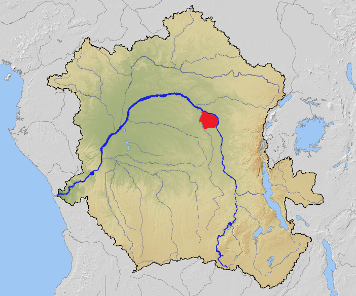 Distribution Piliocolobus parmentieri